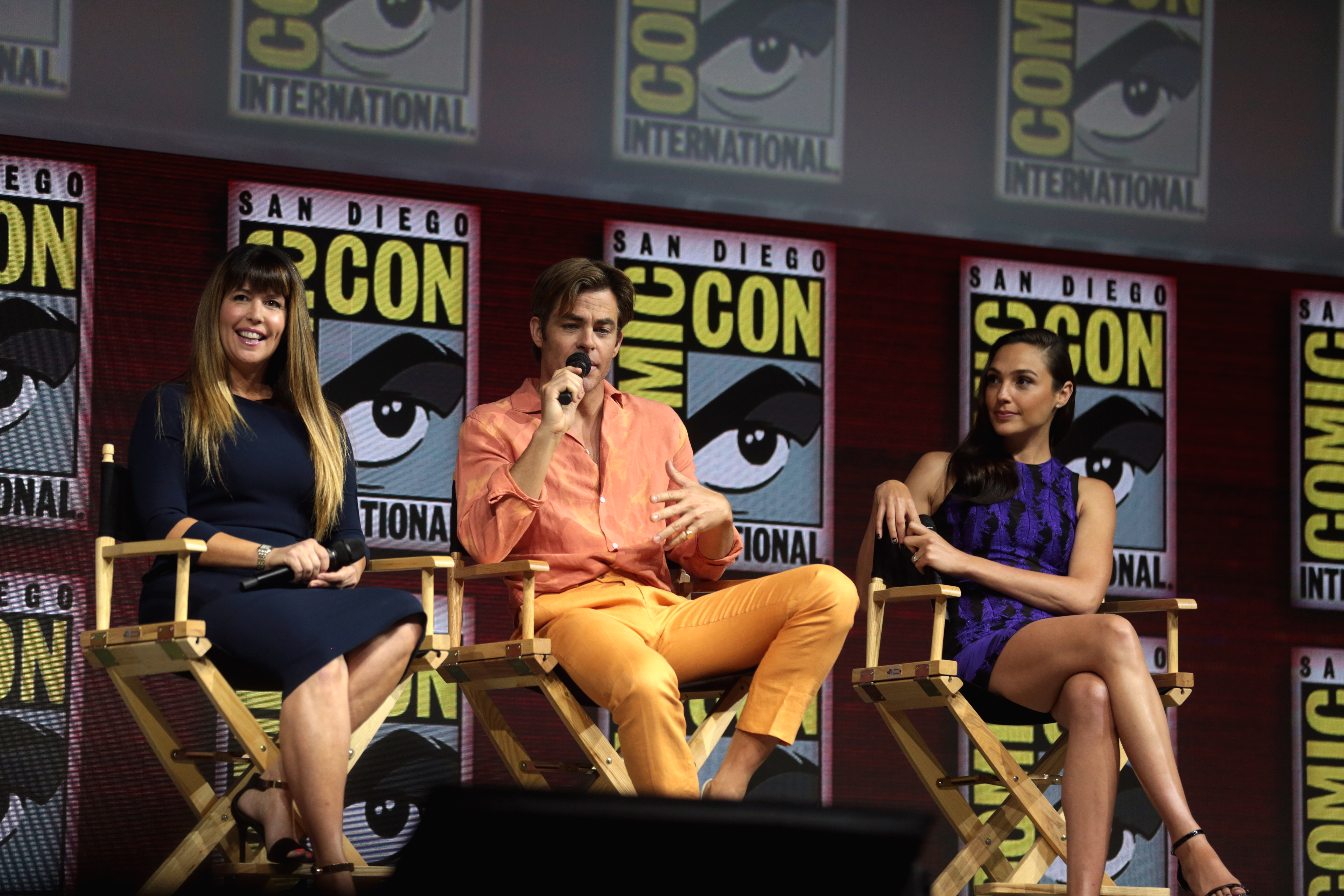 Patty Jenkins, Chris Pine and Gal Gadot speaking at the 2018 San Diego Comic Con International, for "Wonder Woman 1984", at the San Diego Convention Center in San Diego, California.